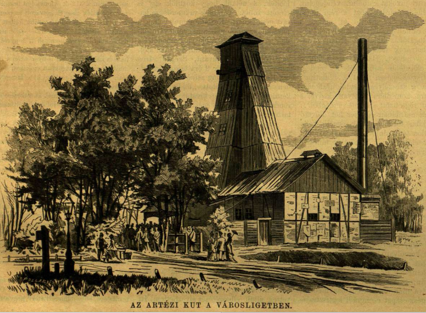 Artesian well, Budapest